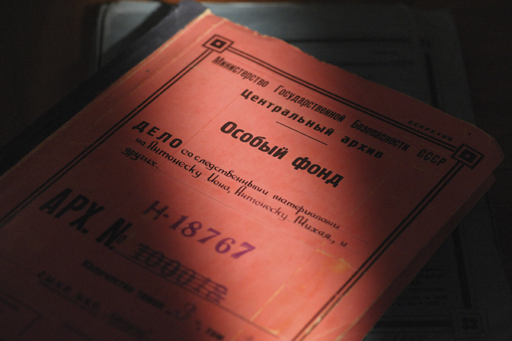 “Files from FSB archives”. Files from the criminal cases fund of the FSB Central Archives.